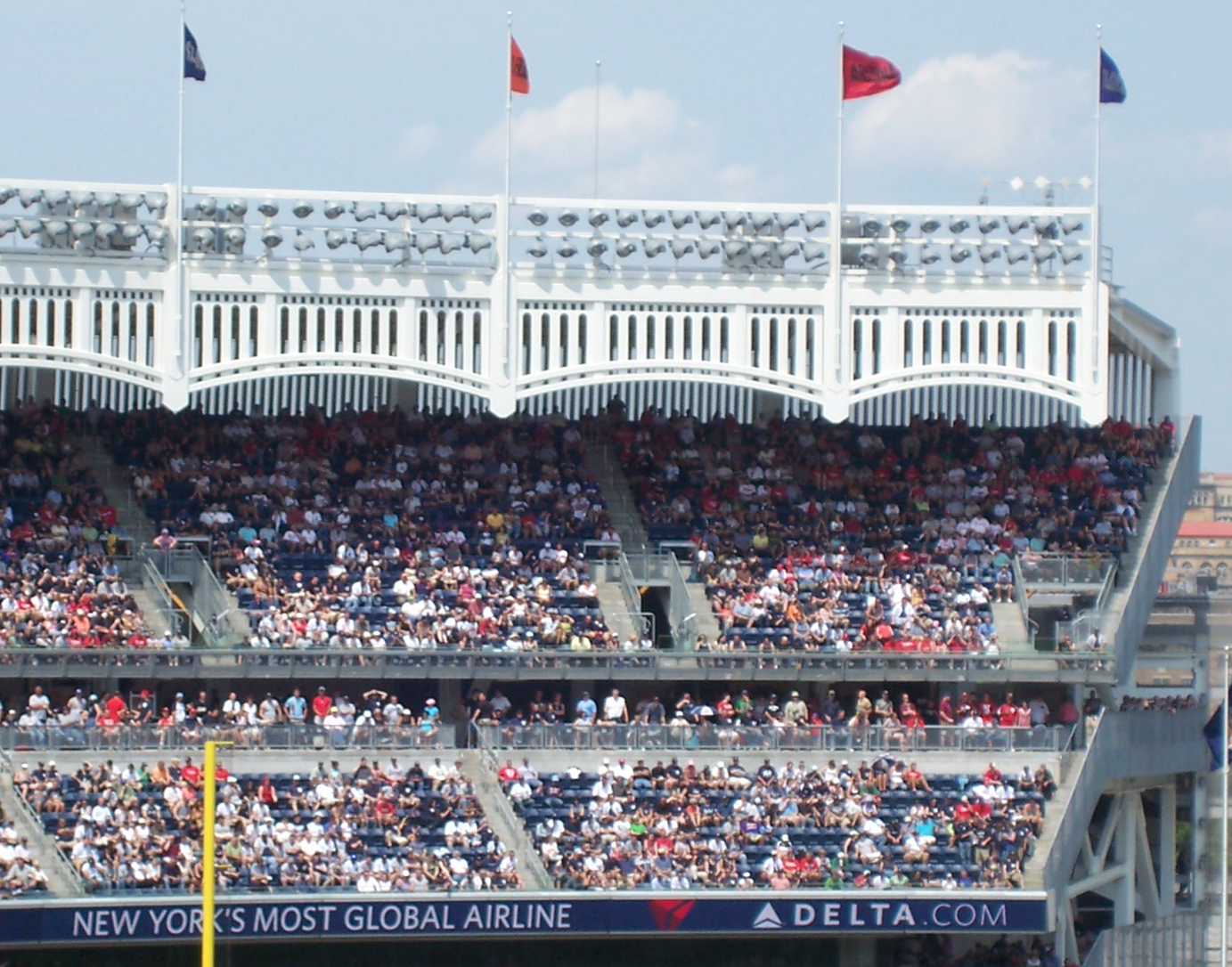 A picture of the frieze of the new Yankee Stadium, during an interleague baseball game between the Philadelphia Phillies and the New York Yankees